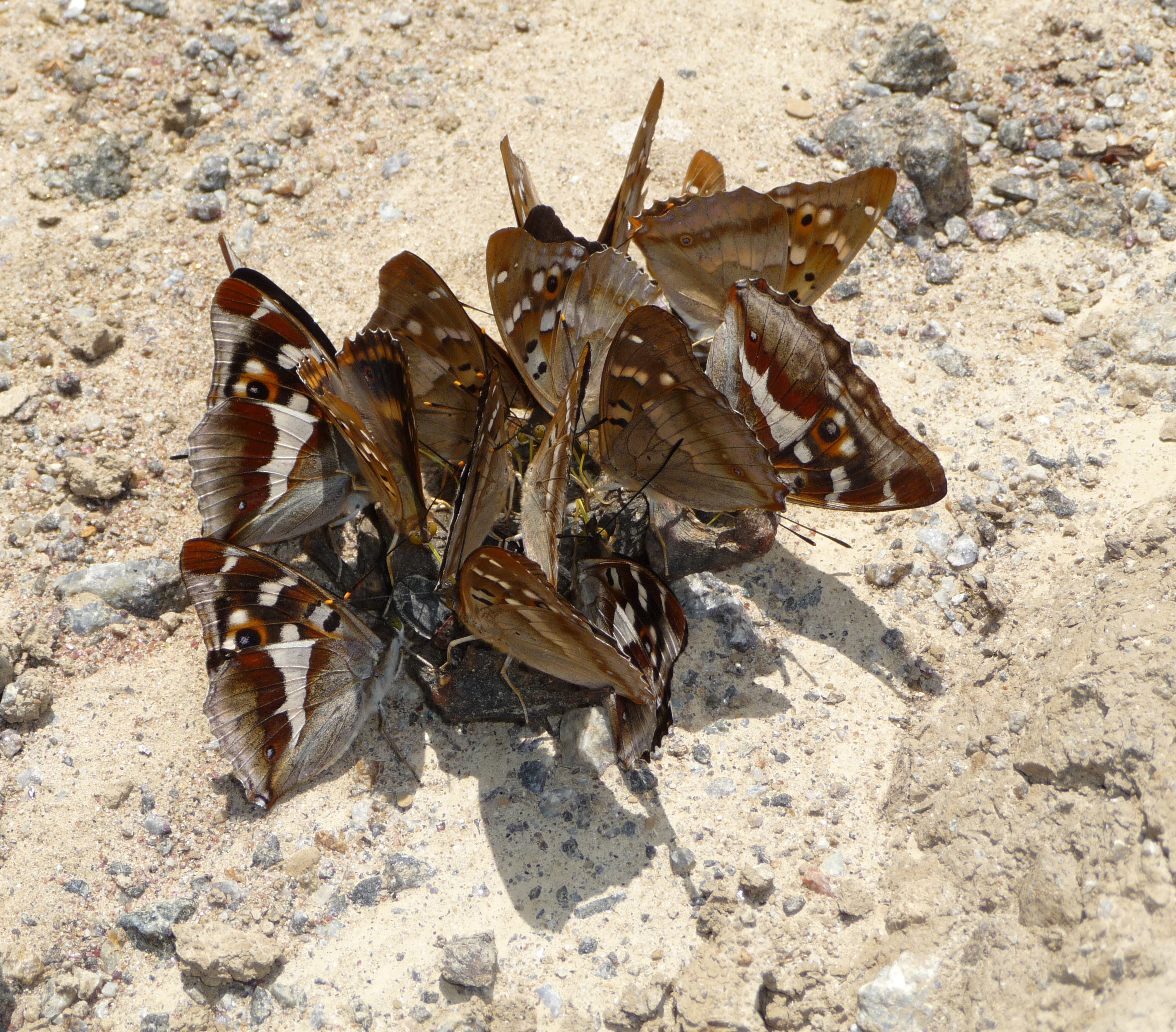 Purple Emperors (Apatura iris) (has wing with a white triangle strip)) and Lesser Purple Emperors (Apatura ilia) (has beige wing) eat moisture from the body of a dead European brown frog (Rana temporaria). Ukraine.